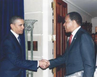 Ajumogobia and President Obama taken by me Depicted people: Henry Odein Ajumogobia and Barack Obama